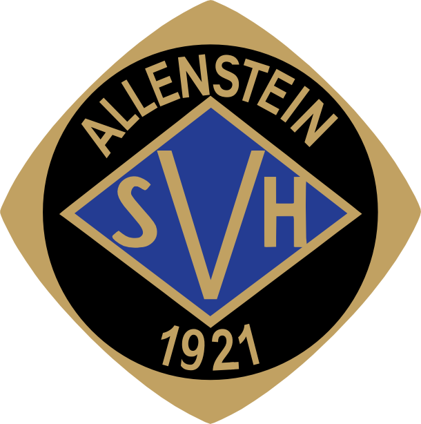 Logo of SV Hindenburg Allenstein, German football team.